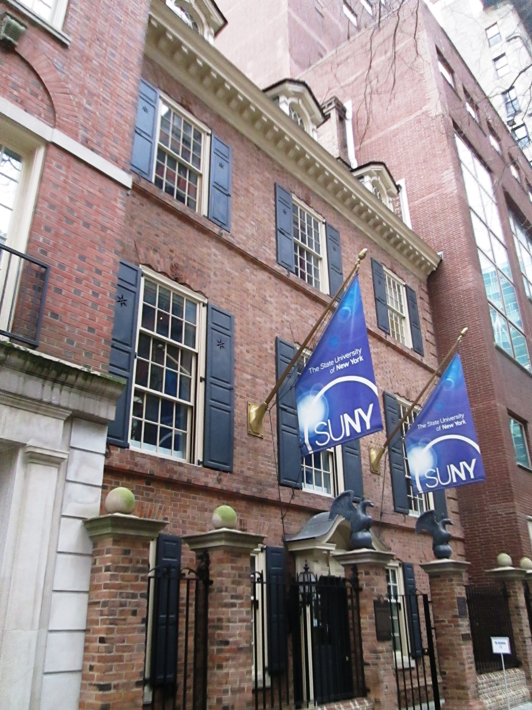 The William and Helen Martin Murphy Ziegler, Jr. House, located at 116 East 55th Street between Park and Lexington Avenues in the Midtown neighborhood of Manhattan, New York City, was built in 1926-27 and was designed by William L. Bottomley in the Neo-Georgian syle, which Bottomley specialized in during the 1920s and 1930s. The 37.5-foot wide house's four-and-a-half story facade features Flemish blond brickwork with burnt leaders, splayed lintels and end quoins, along with paneled wood shutters and a grey slate roof that is steeply pitched with set-in dormer windows and end chimneys. Ziegler, who was a businessman, sportsman, philanthropist – he was the head of several foundations for the blind – lived in the house until 1958, after which it was converted into offices. It is currently used by the State University of New York for the SUNY Global Center. The building was designated a New York City landmark on May 1, 2001. (Sources: Guide to NYC Landmarks (4th ed.), AIA Guide to NYC (5th ed.), Historical marker on building, and NYCLPC Designation Report)